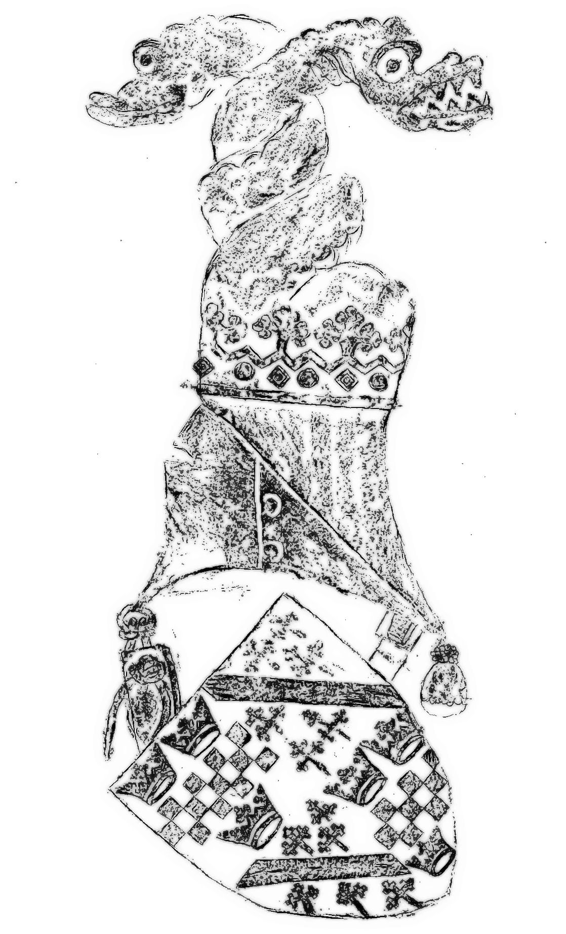 Copyright expired. Image from book by Herbert B Mackintosh, Elgin Past and Present, Elgin, 1914, page 35.